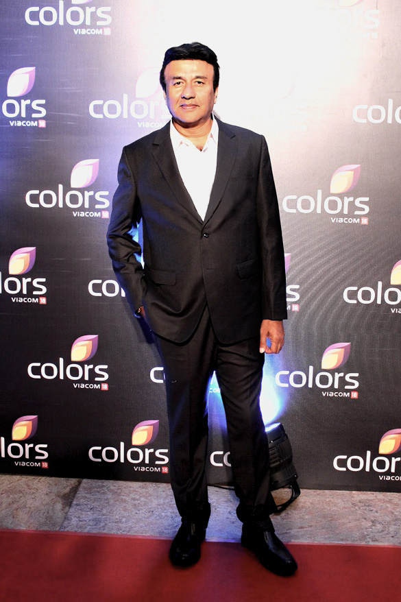 Anu Malik grace Colors’ annual bash